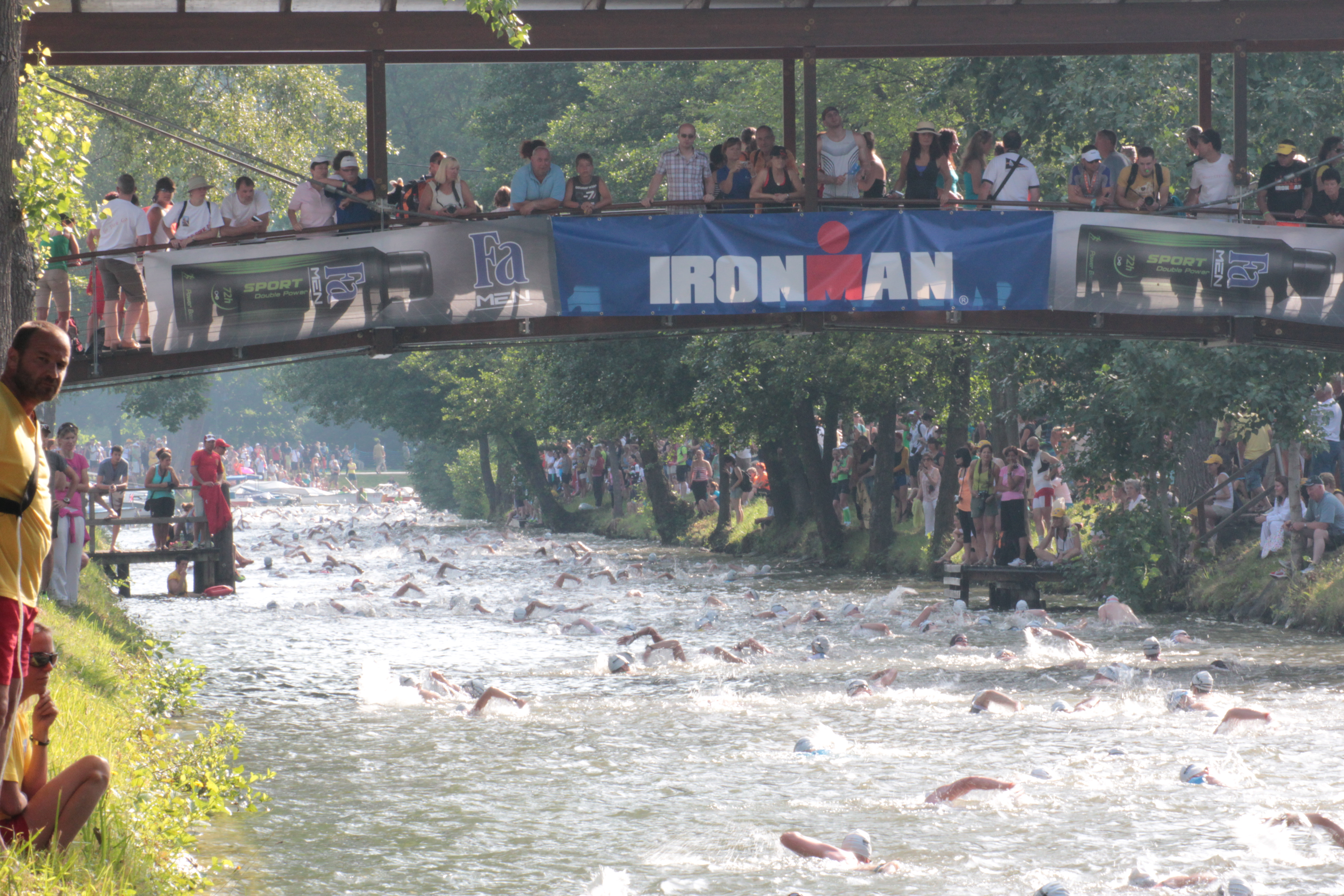 Athletes passing Lendkanal during final section of swimming at Ironman Austria 2012